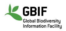 GBIF Logo